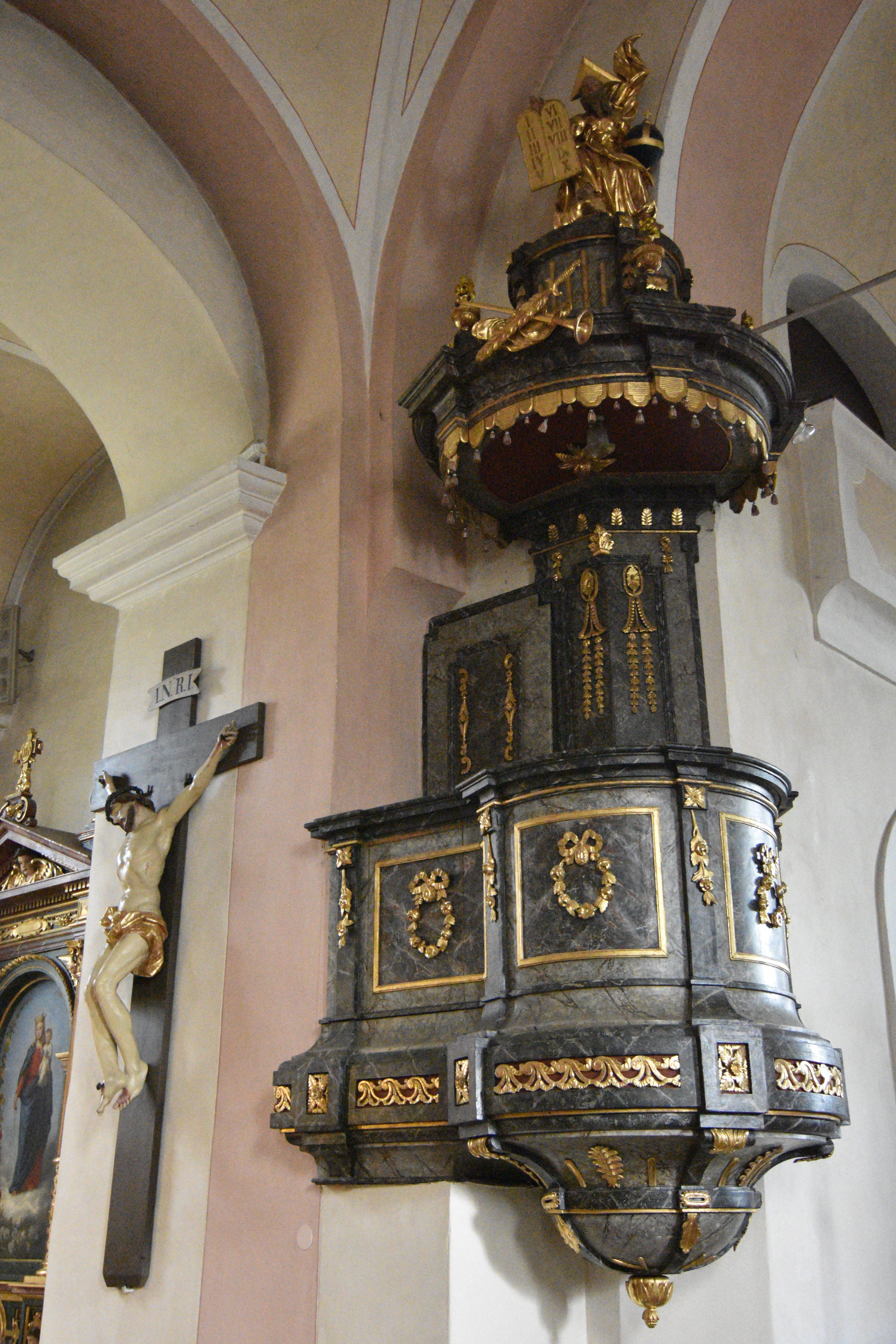 Pfarrkirche Hartmannsdorf interieur